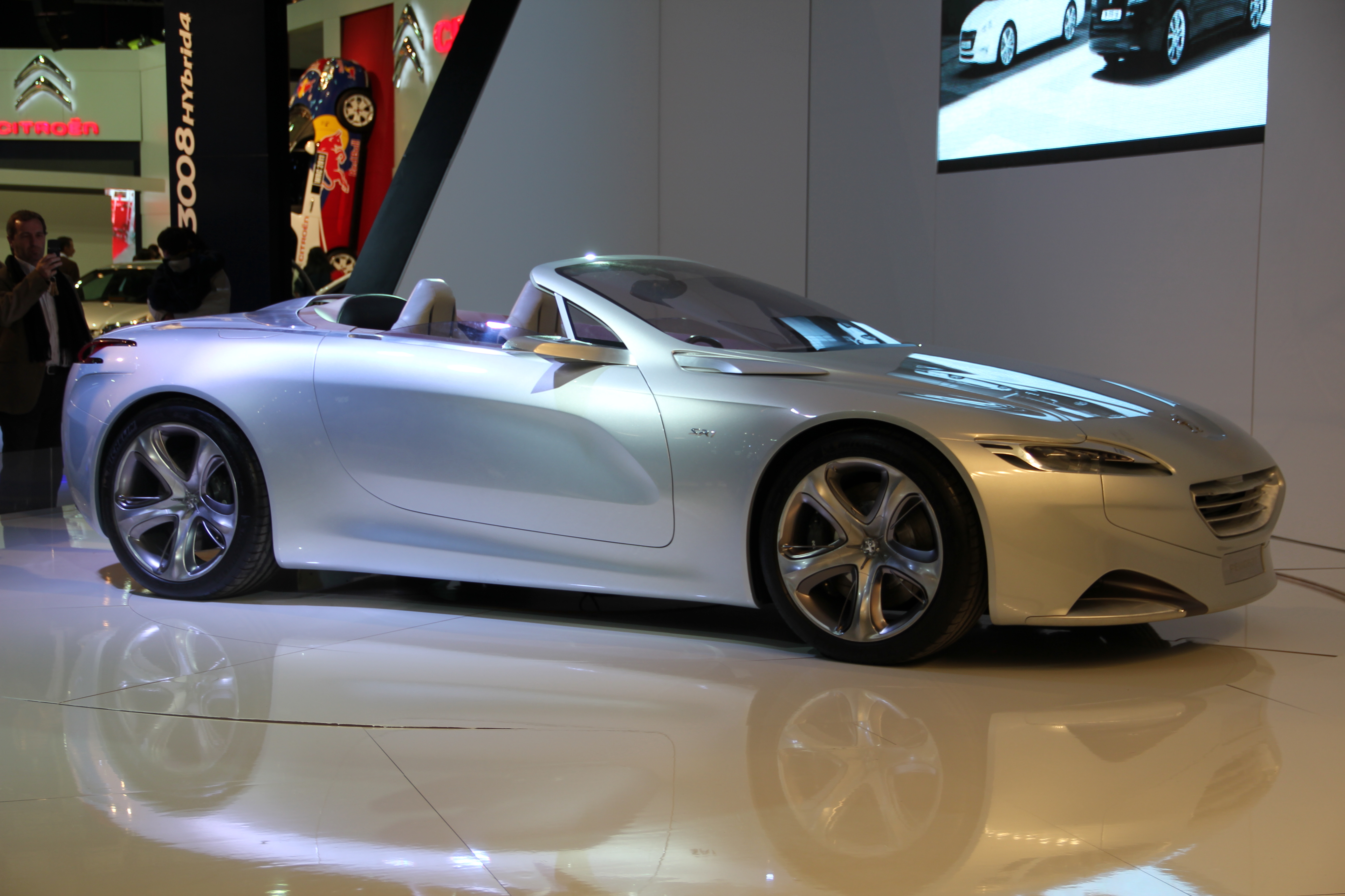 Peugeot SR1 as shown at the 2011 Buenos Aires Motor Show